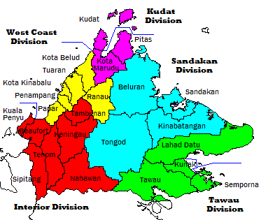 Created using Aquarius OMC, drawn using MS Paint.